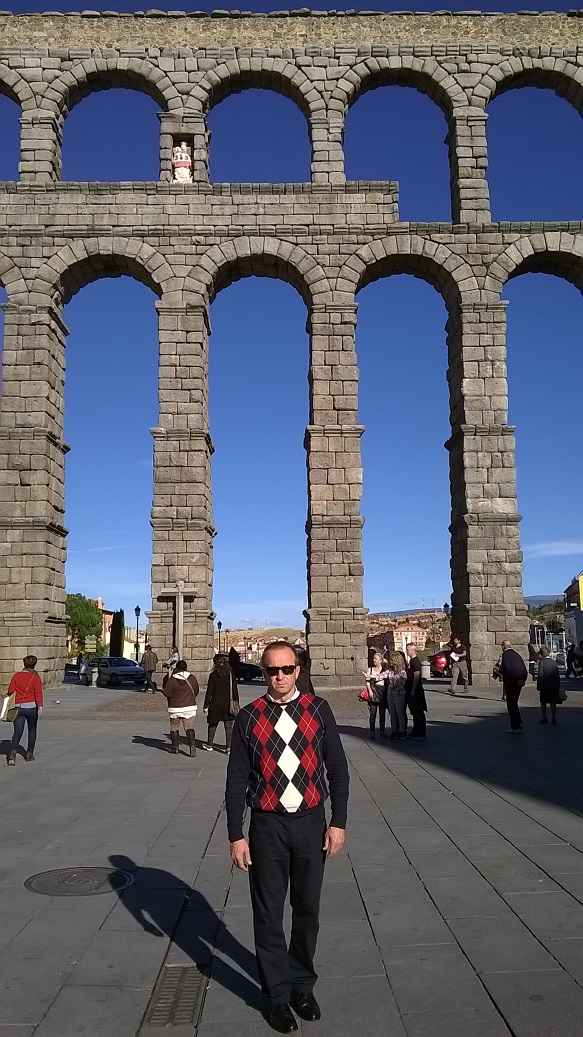 Dr Dragan Djokanovic in Segovia, Spain